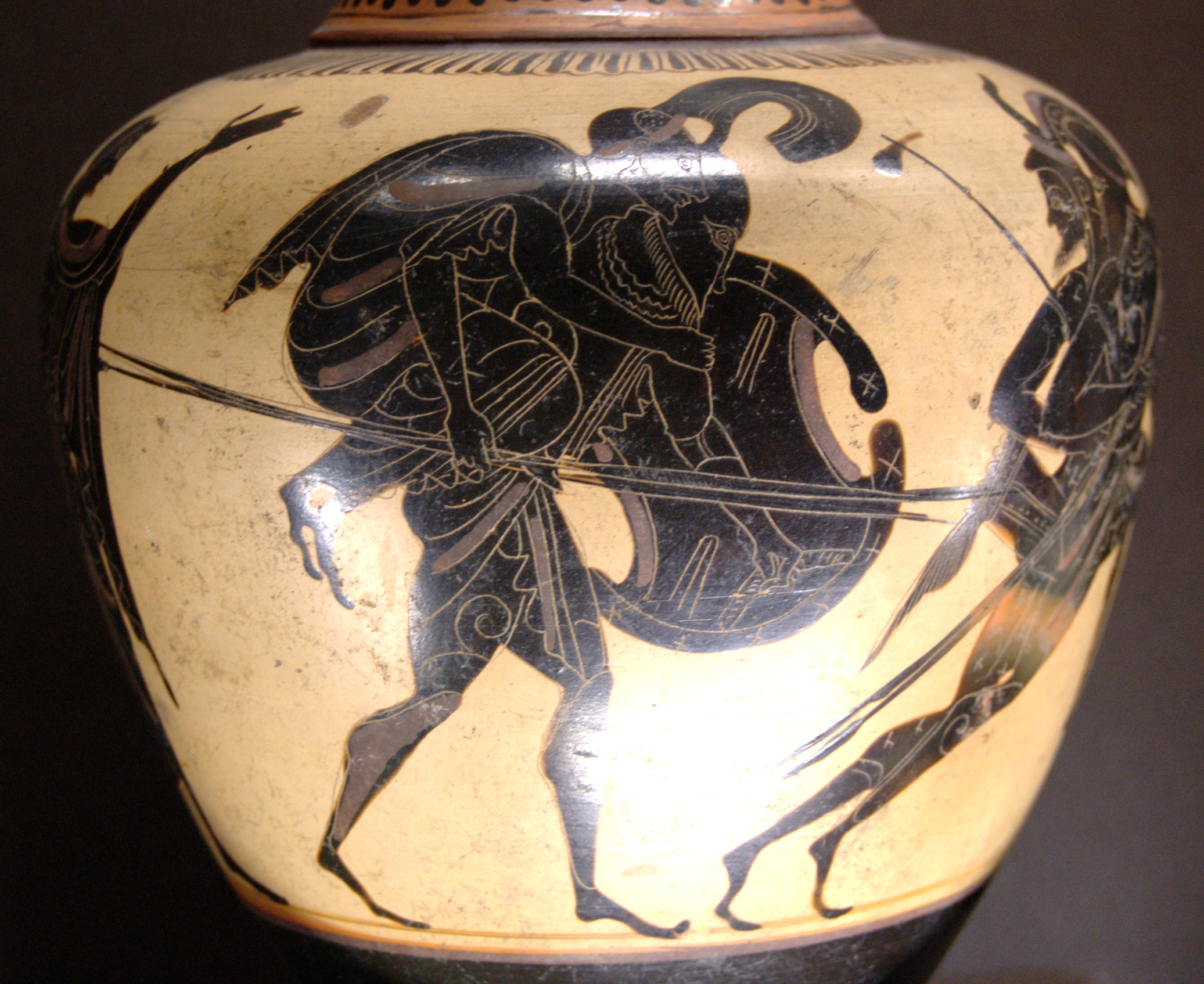 Aeneas carrying Anchises. Attic black-figure oinochoe, ca. 520–510 BC.